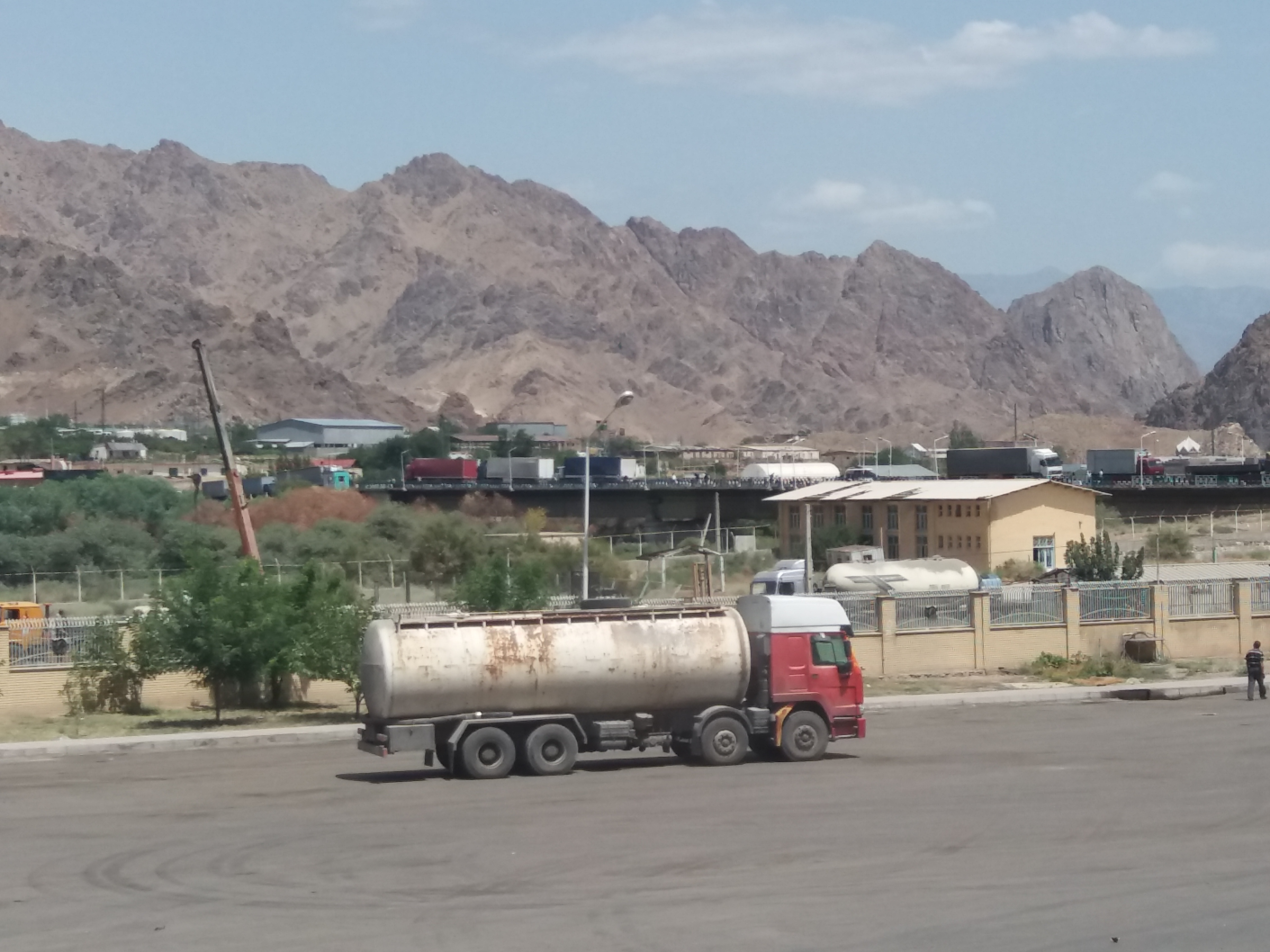 Armenian-Iranian border, Nurduz